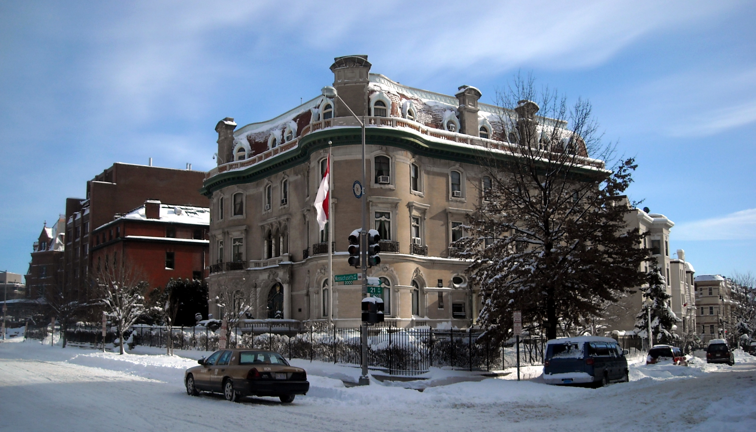 The Indonesian embassy, located on the corner of 21st Street and Massachusetts Avenue, N.W., in the Dupont Circle neighborhood of Washington, D.C., following the North American blizzard of 2010.